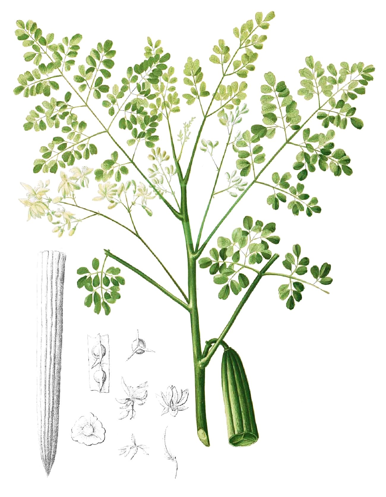 Plate from book